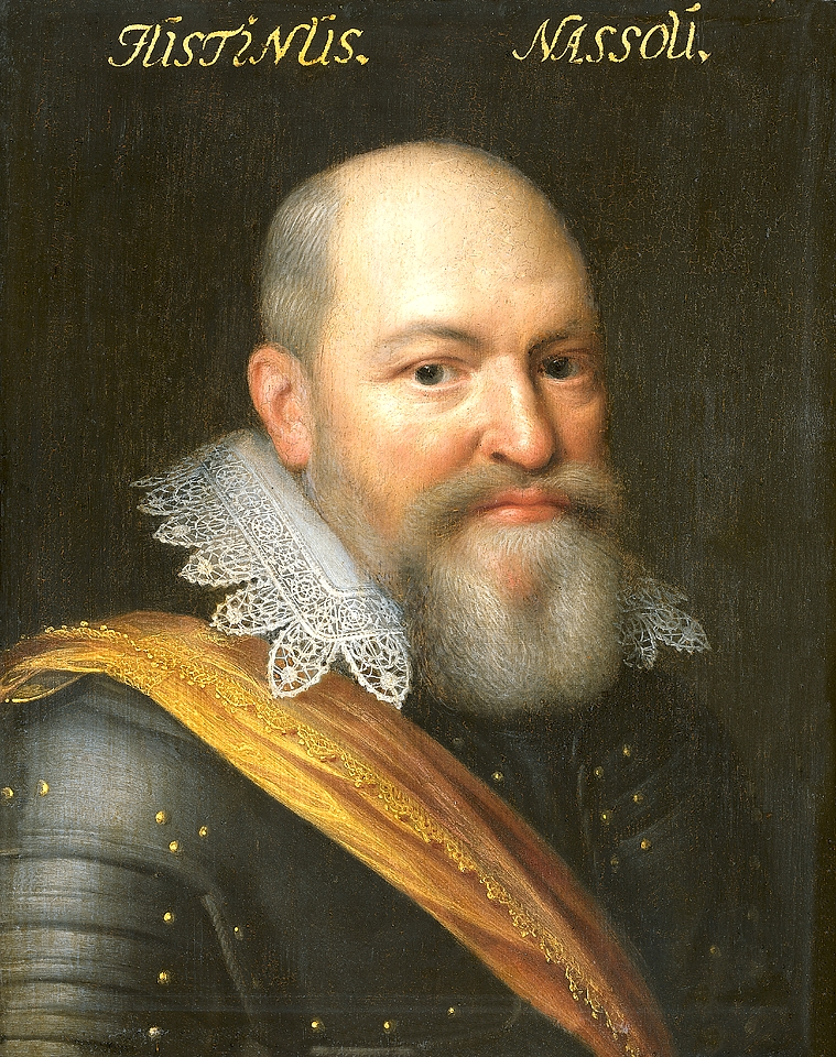 Portrait of Justinus of Nassau (1559–1631). Part of the Leeuwarden series, a series of portraits of military officials from the Eighty Years' War as well as members of the House of Orange-Nassau, first documented in 1633 in the Stadhouderlijk Hof (Stadholder's Court) in Leeuwarden (see Object history).